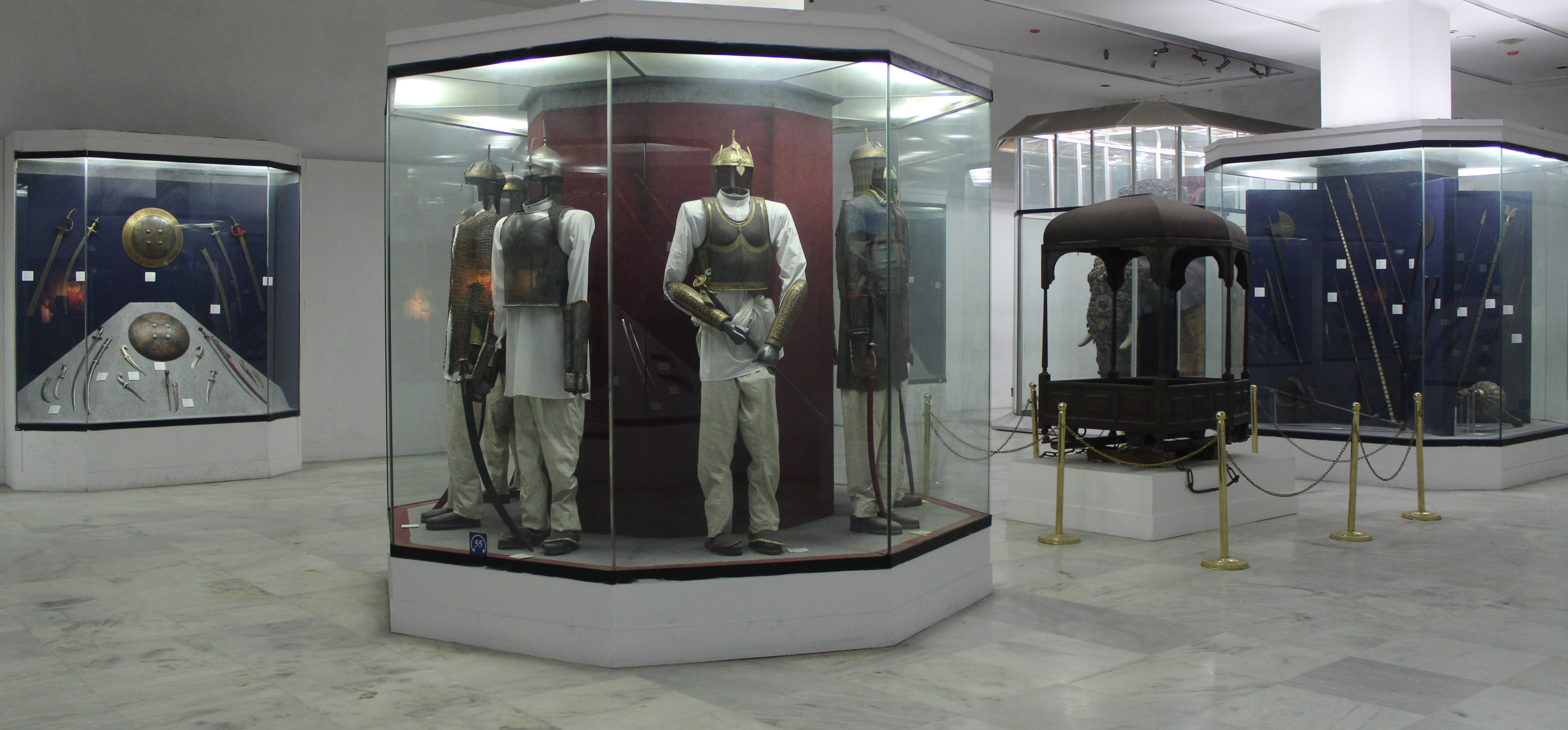 a view of the arms and armours gallery